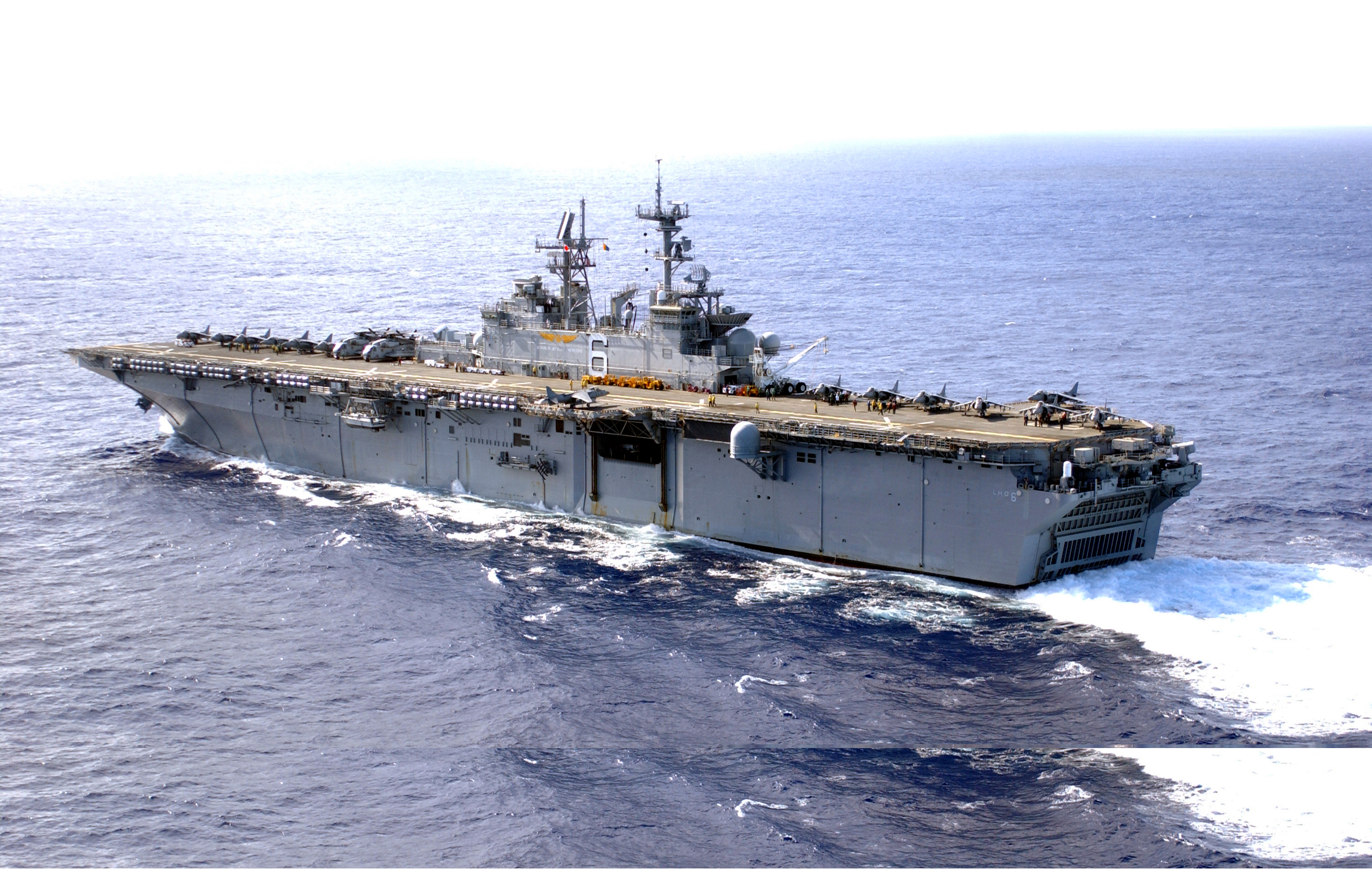 At sea aboard USS Bonhomme Richard (LHD 6) Jan. 27, 2003 - The amphibious assault ship USS Bonhomme Richard (LHD-6) deployed with the seven-ship Amphibious Task Force West (ATF-W) in support of Operation Enduring Freedom (OEF) from her homeport of San Diego, Calif. U.S. Navy photo by Photographer's Mate 2nd Class Jennifer Swader. (RELEASED)